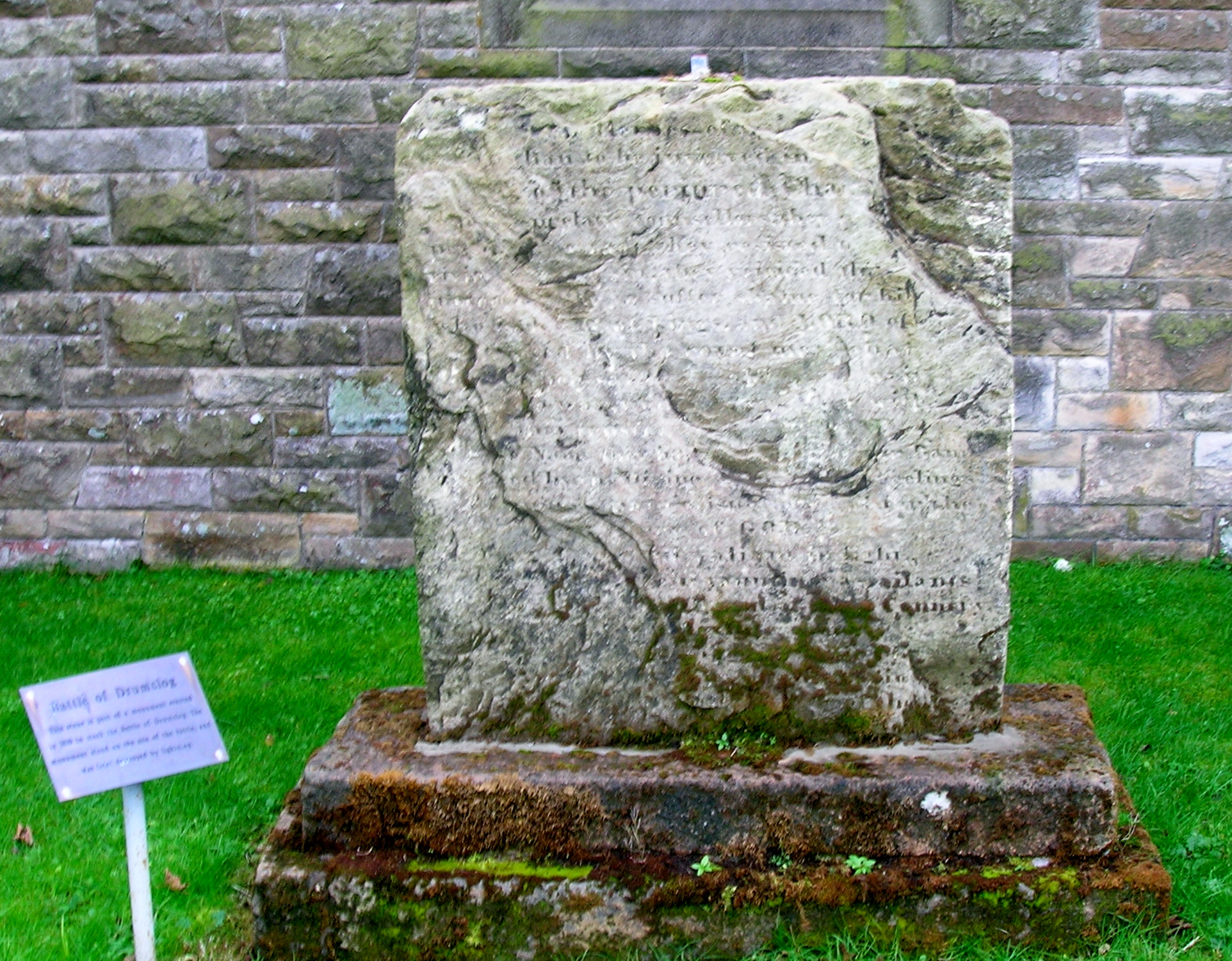 Part of the first Battle of Drumclog memorial that was destroyed by lightning. Drumclog Memorial Church, South Lanarkshire, Scotland.